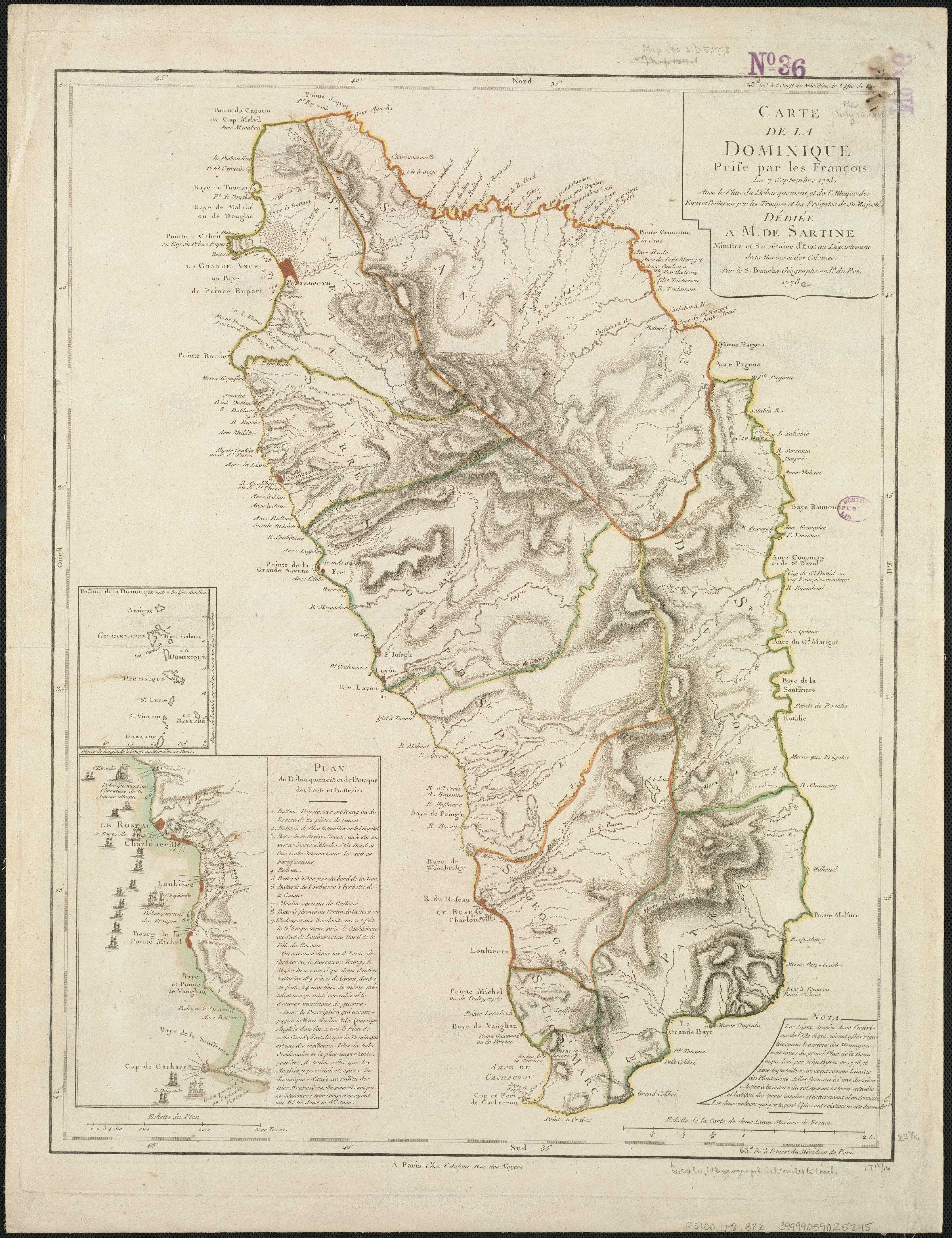 A 1778 French map depicting the defences of the island at the time of the French invasion.